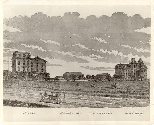 This is a picture of Texas A&M as it looked circa 1883, taken from the 1883-1884 A&M catalog.